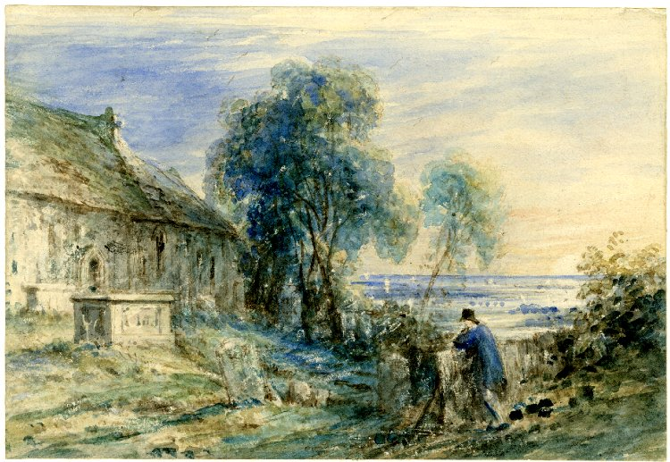 "llustration to Thomas Gray's 'Elegy', Stanza V; scene in a churchyard on a hill, with figure leaning on a grave, distant view of lowland beyond trees"